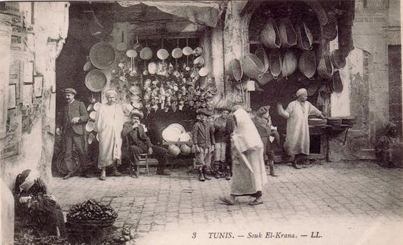 une photo ancienne du souk El Grana